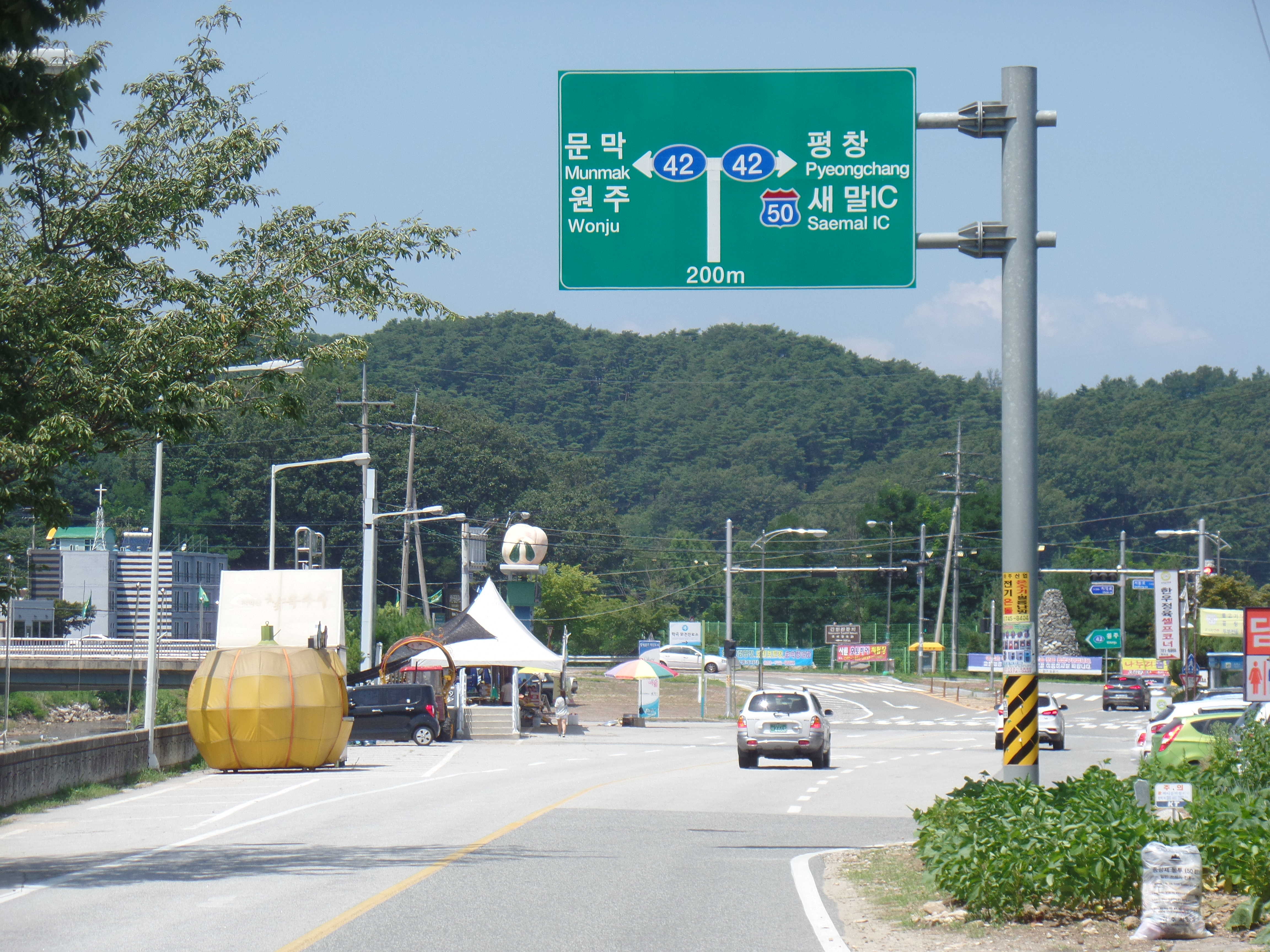 Republic of Korea National Route 42 Hakgok Tway Intersection